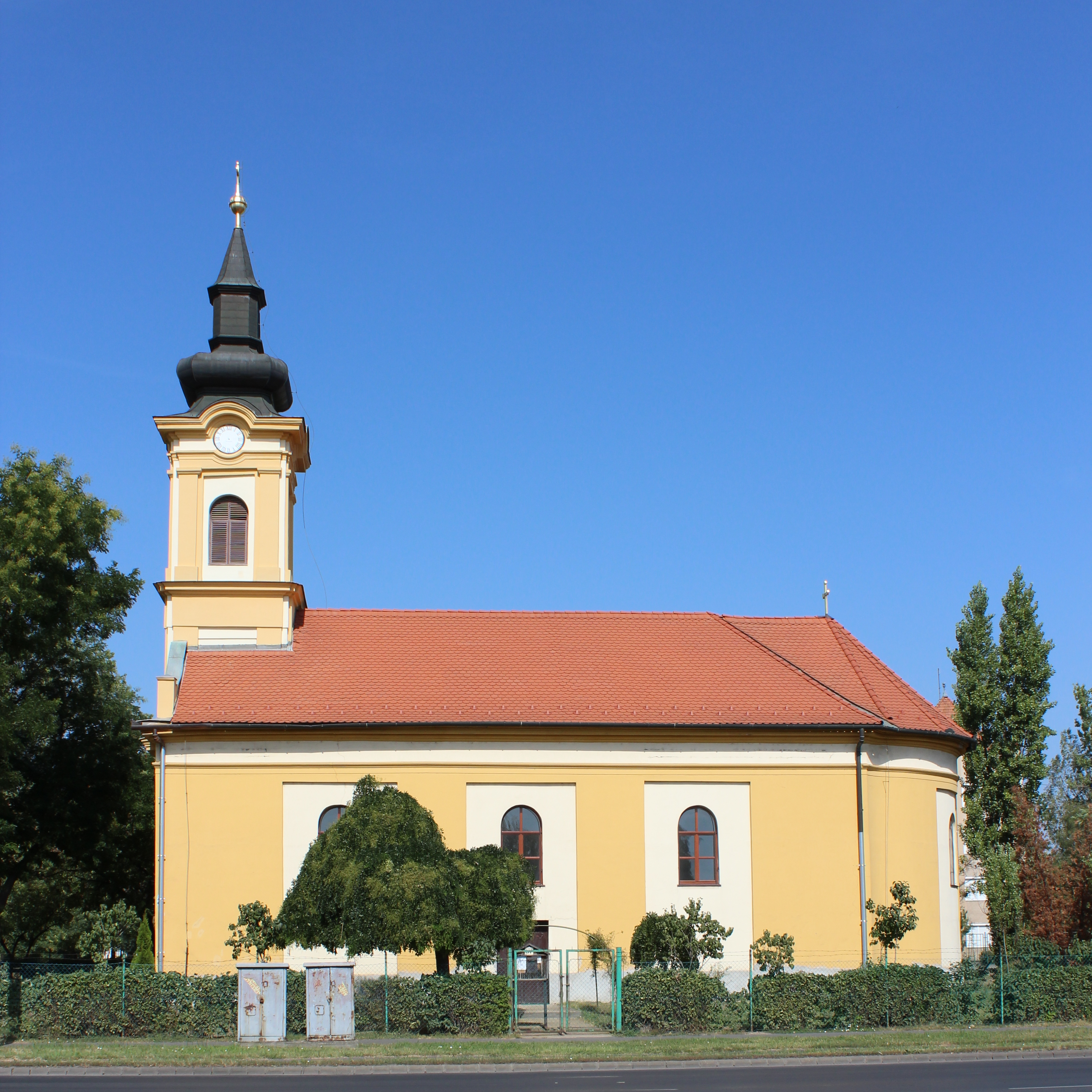 Romanian Orthodox Church (Békéscsaba, Hungary).